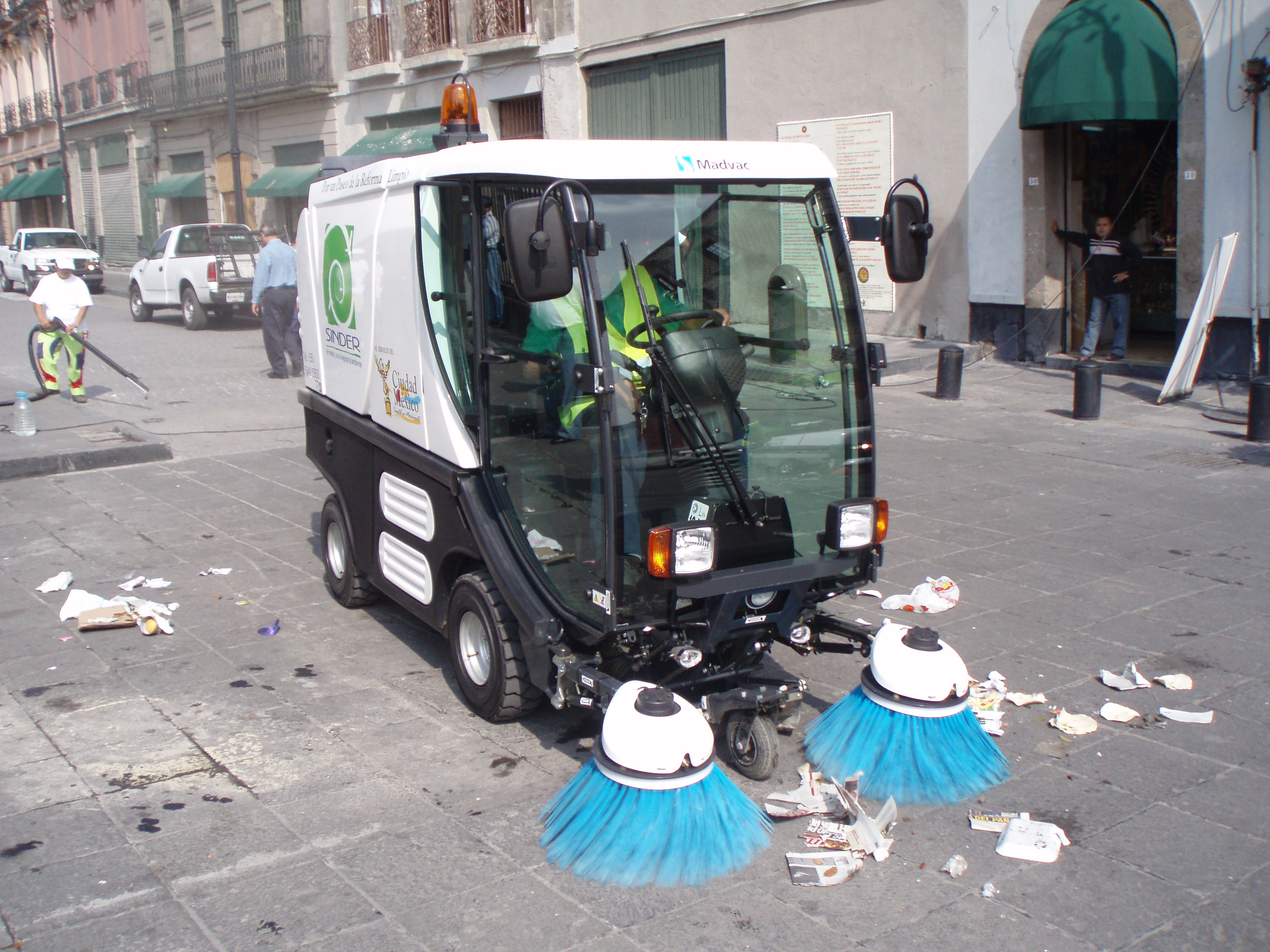 A compact streetsweeper in Mexico City Downtown.